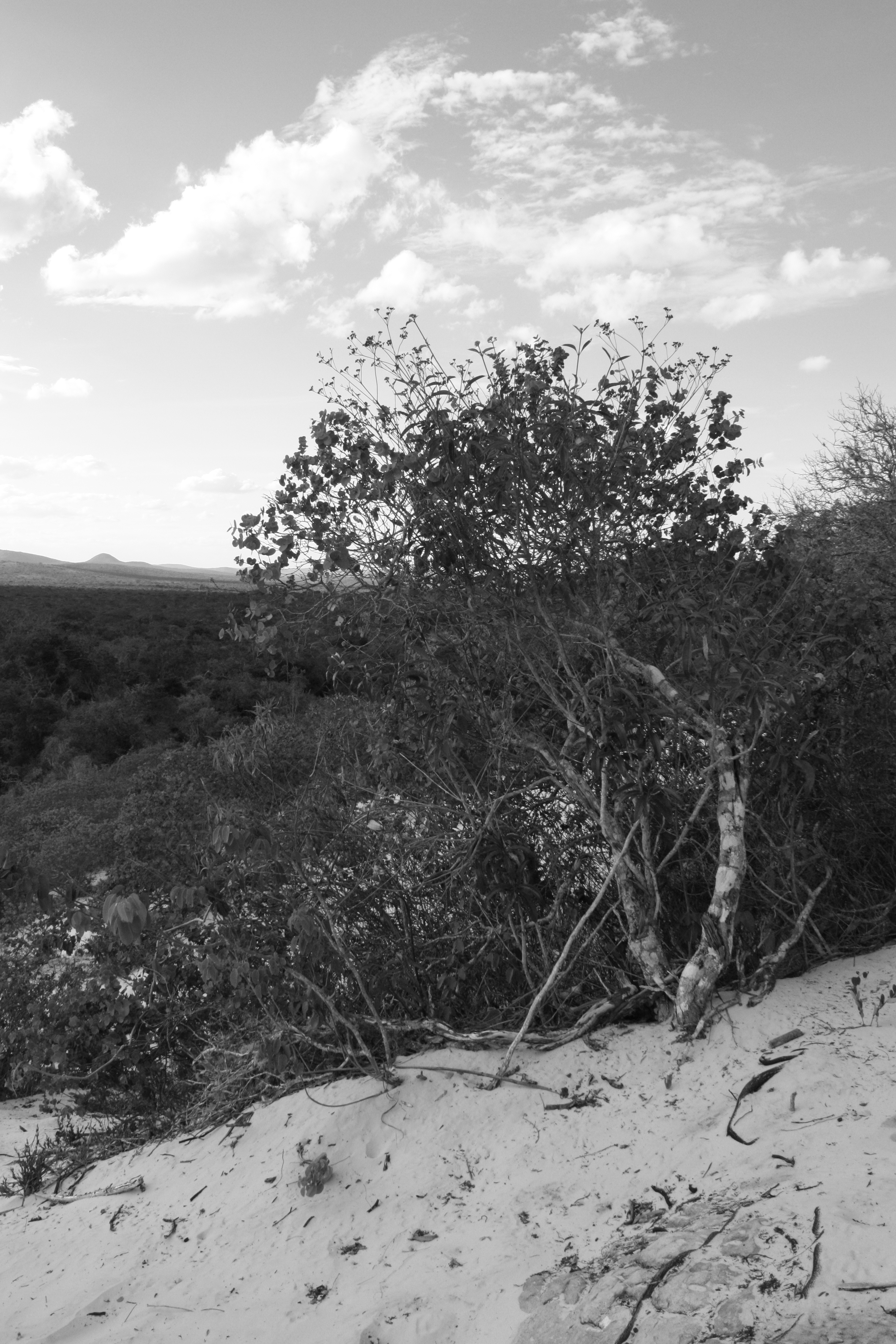 Photography vegetation City Boninal-Bahia - Brazil.